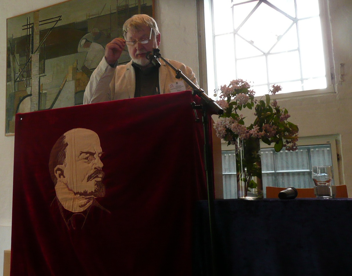 Henrik Stamer Hedin, leader of the Communist Party of Denmark (DKP) in the 33. congress of the party, 16-17 june 2012 in Valby, Denmark.